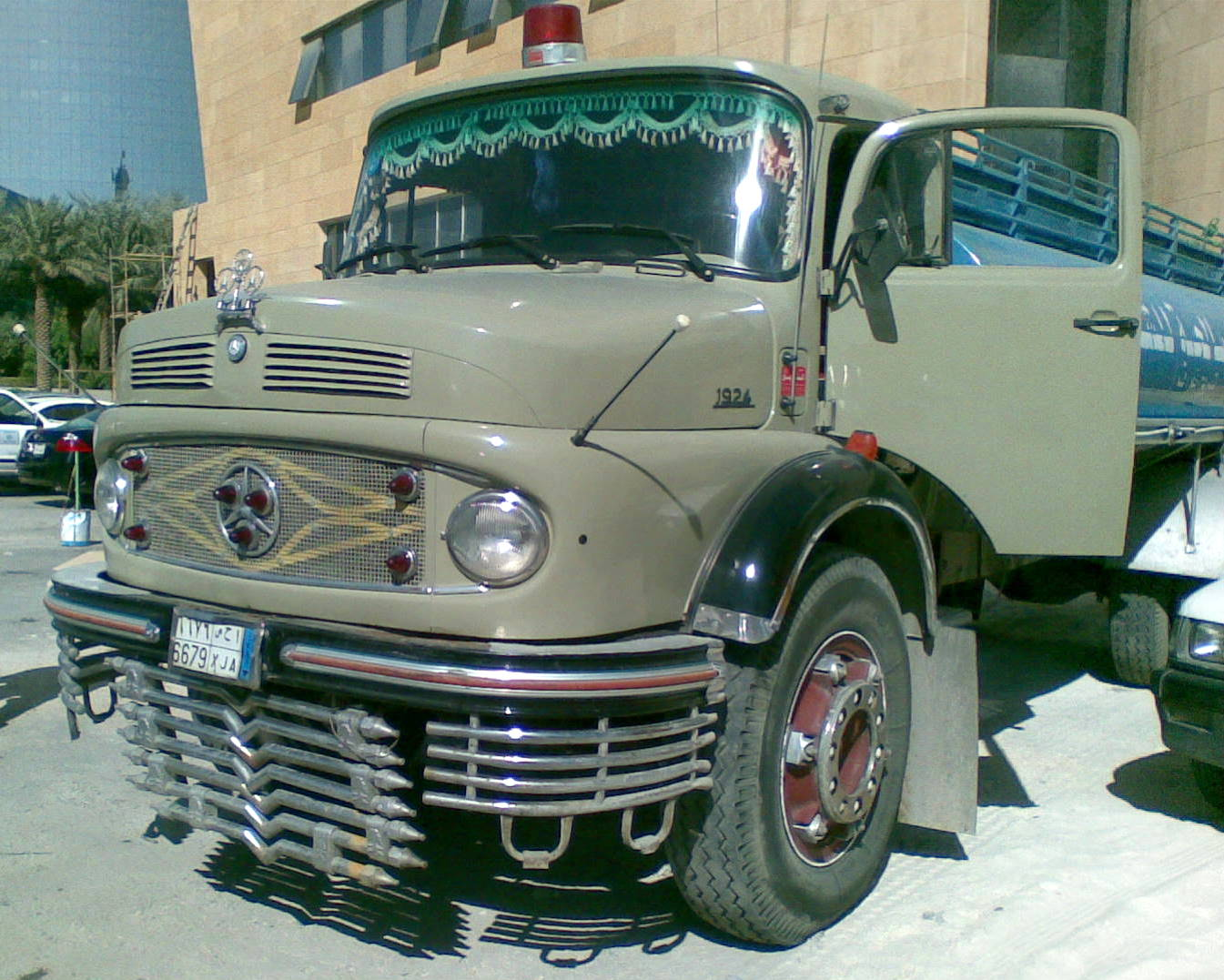 Truck drivers in most parts of the world are renowned for the attention that is lavished on their trucks - including various types of decoration. It's clear that most of the heavy trucks in Riyadh are not driven by Saudis.